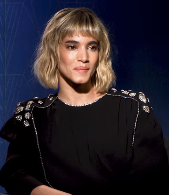 Jodie Foster, Charlie Day, Dave Bautista and the cast of HOTEL ARTEMIS reveal the blooper moments they couldn’t help laughing at and how they filmed the movie’s most stunning action sequences.